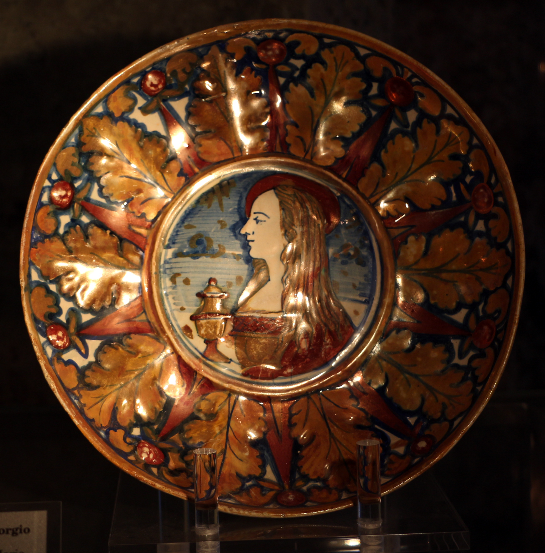 Museo Civico (Gubbio)